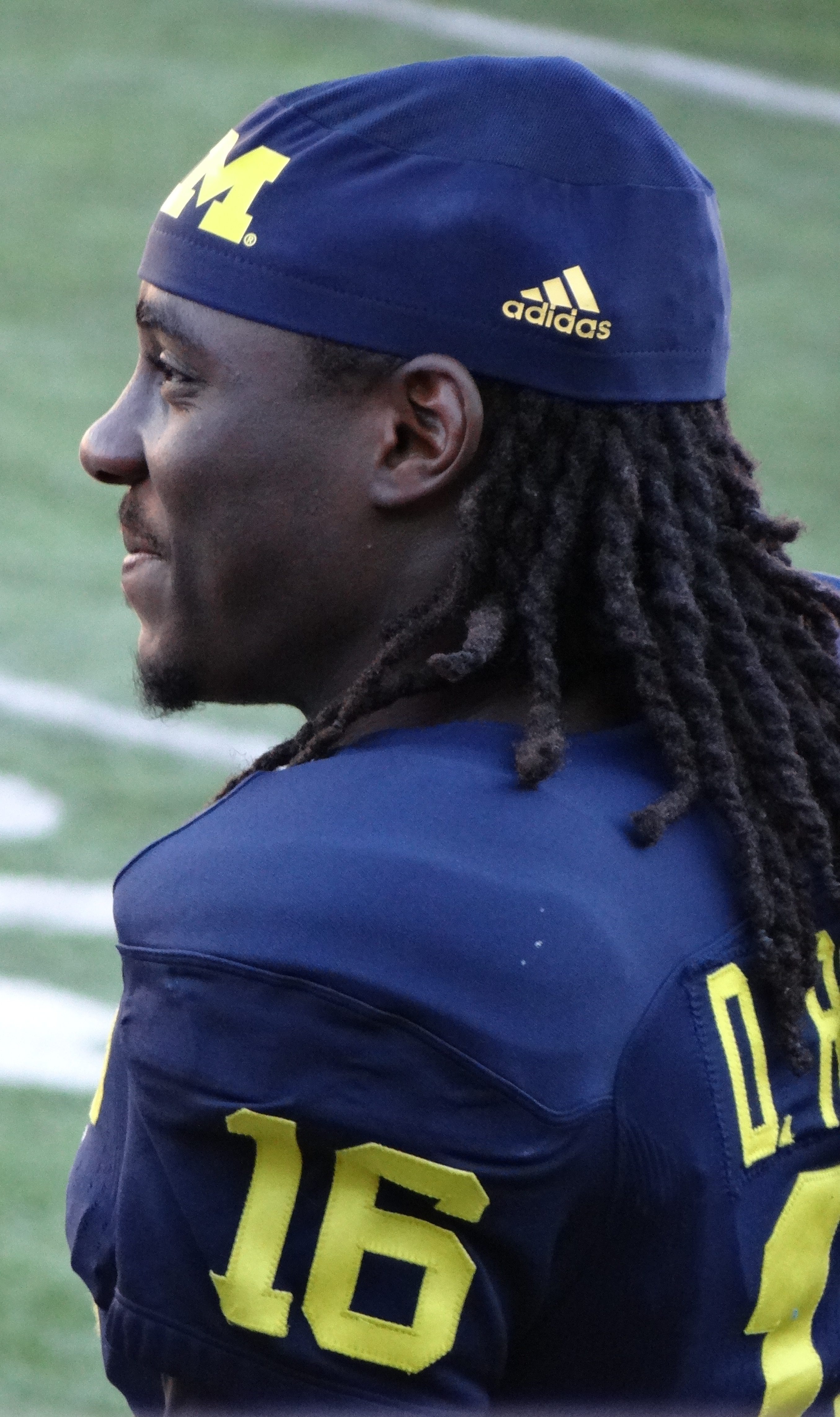 Michigan quarterback Denard Robinson